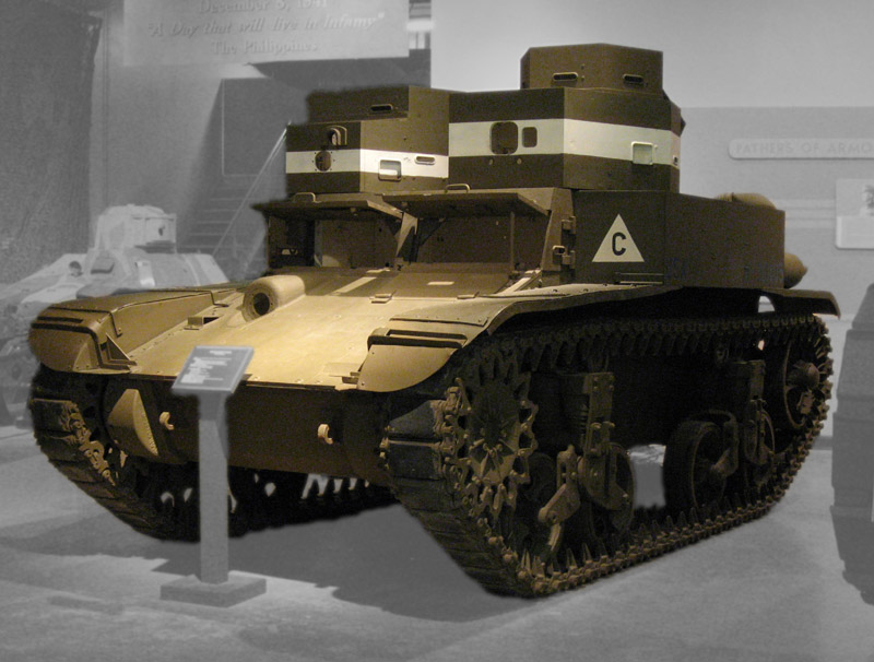 M2A2 Light on display at the Patton Museum of Cavaley and Armor in Fort Knox, KY. The picture taken May 6, 2007.